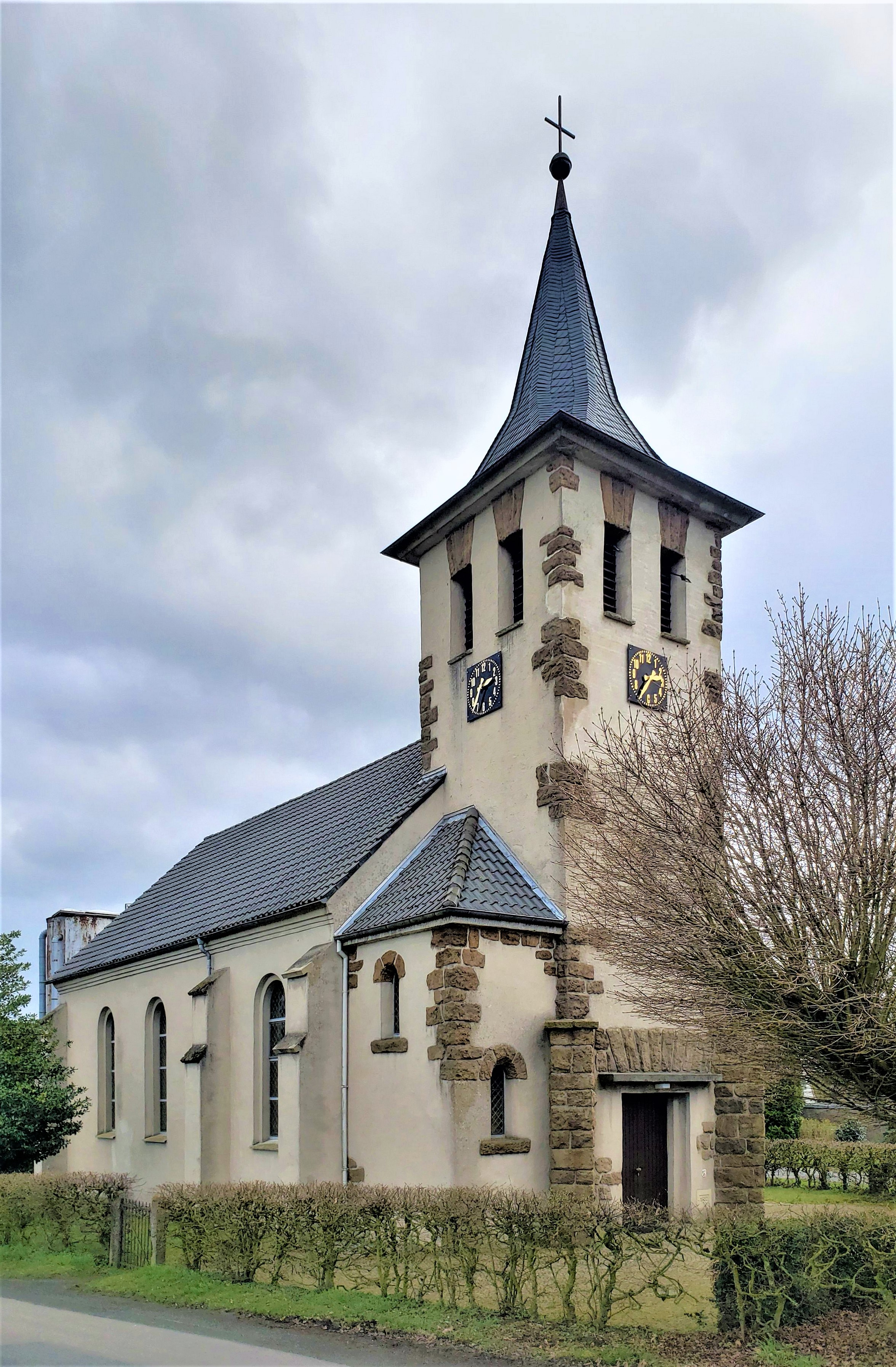 This is a photograph of an architectural monument.